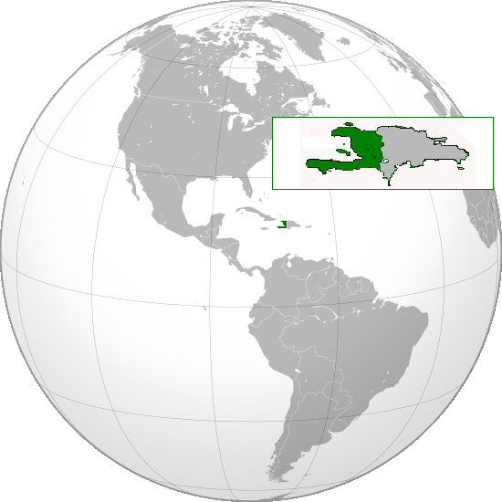 Orthographic projection of Haiti.